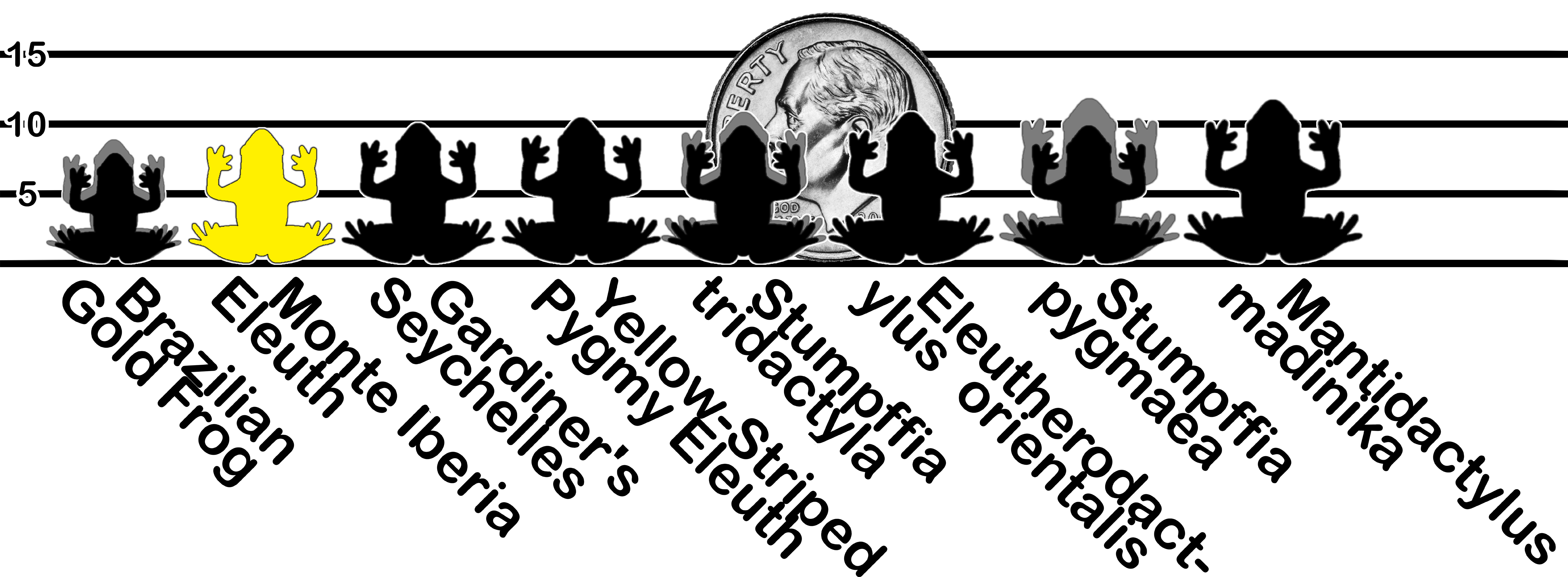 a graphic comparison of the world's smallest frogs, highlighting the Brazilian Gold Frog.